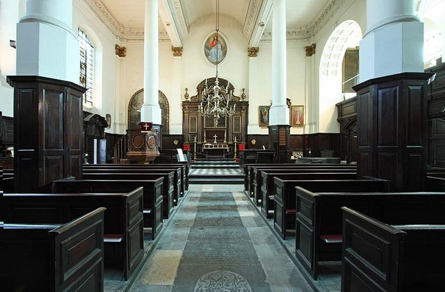 St Martin, Ludgate Hill, London EC4 - East end, near to London, City of London, Great Britain.